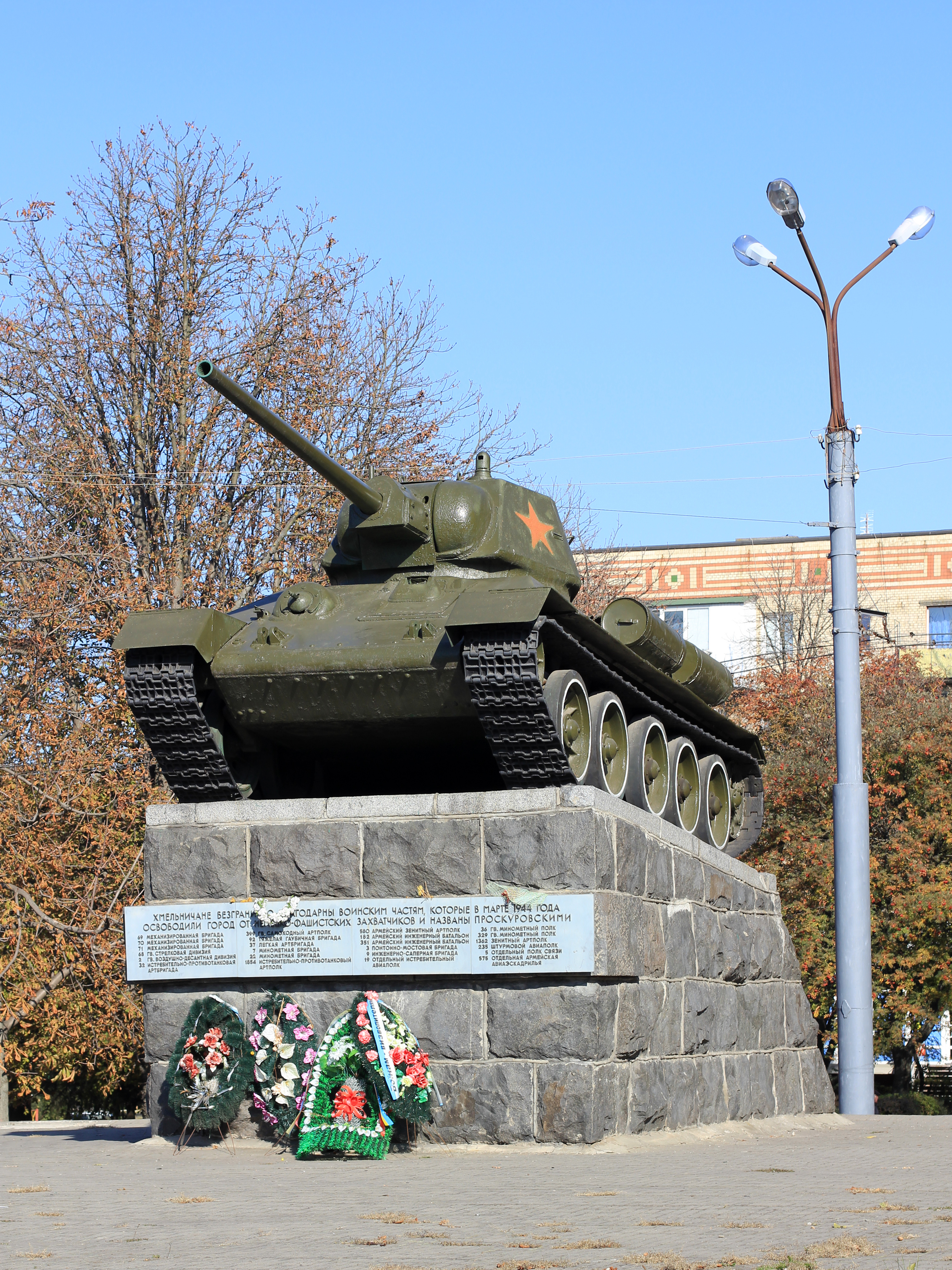 T-34-76 monument in Khmelnytskyi. The monument is established in memory of the military units liberating Khmelnitskiy in 1944. Technical review: tank body is early Kharkiv production. Turret is later 1942/1943 Ural production. Gun moved forward and fixed in this position. Wheels is two types later production, typical for T-34/85 model.